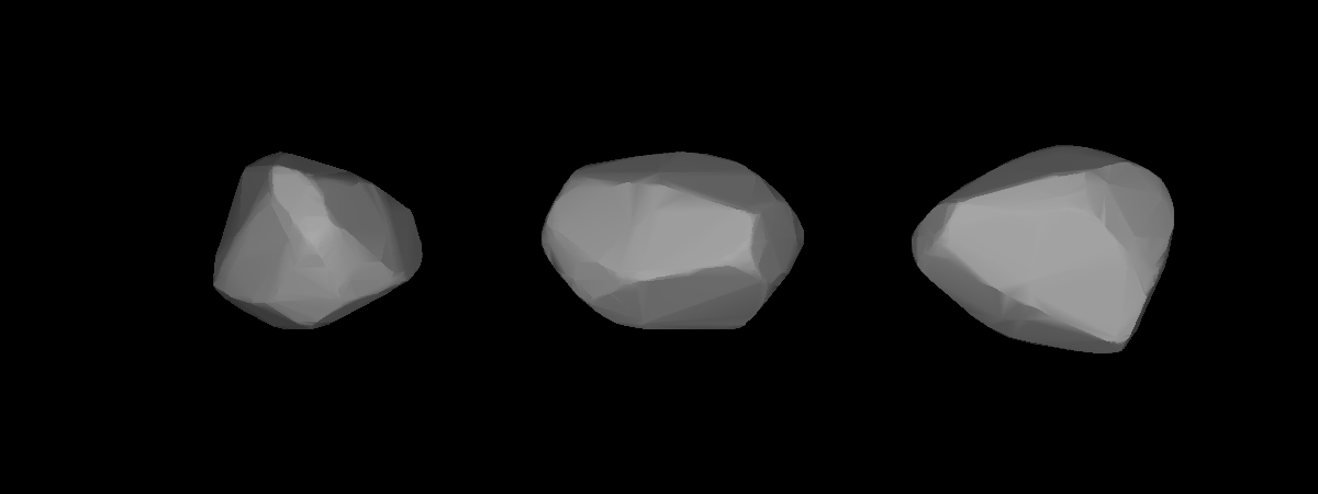 A three-dimensional model of 183 Istria that was computed using light curve inversion techniques.